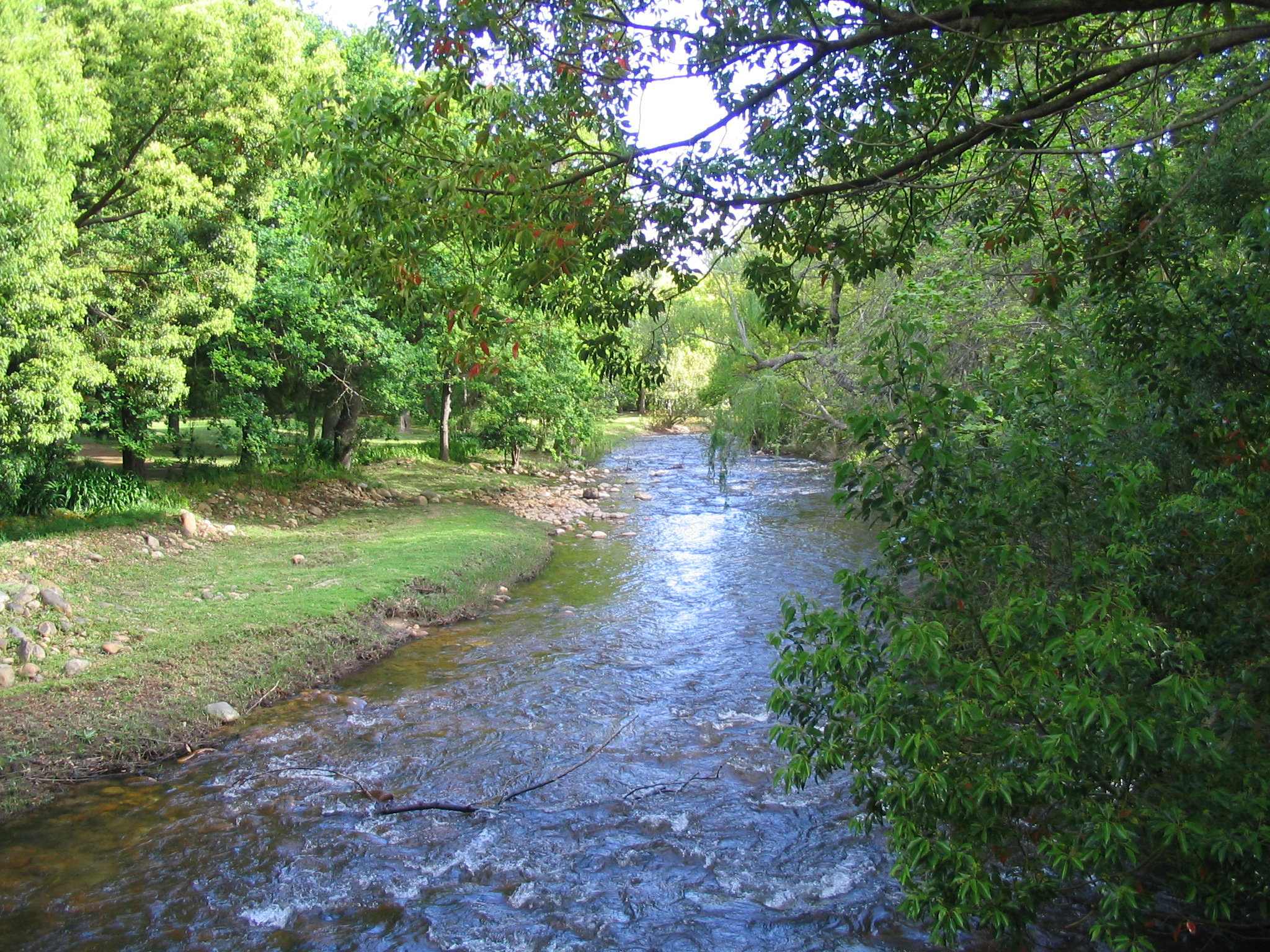 Lourens River from the swing bridge on the Vergelegen estate